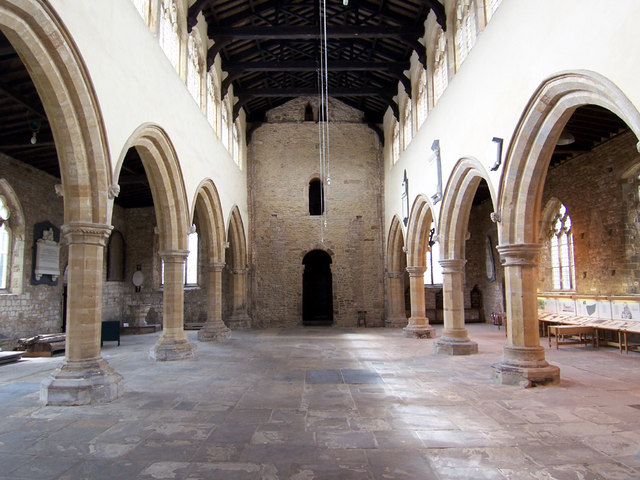 Interior of the Church of St. Peter, Barton-Upon-Humber